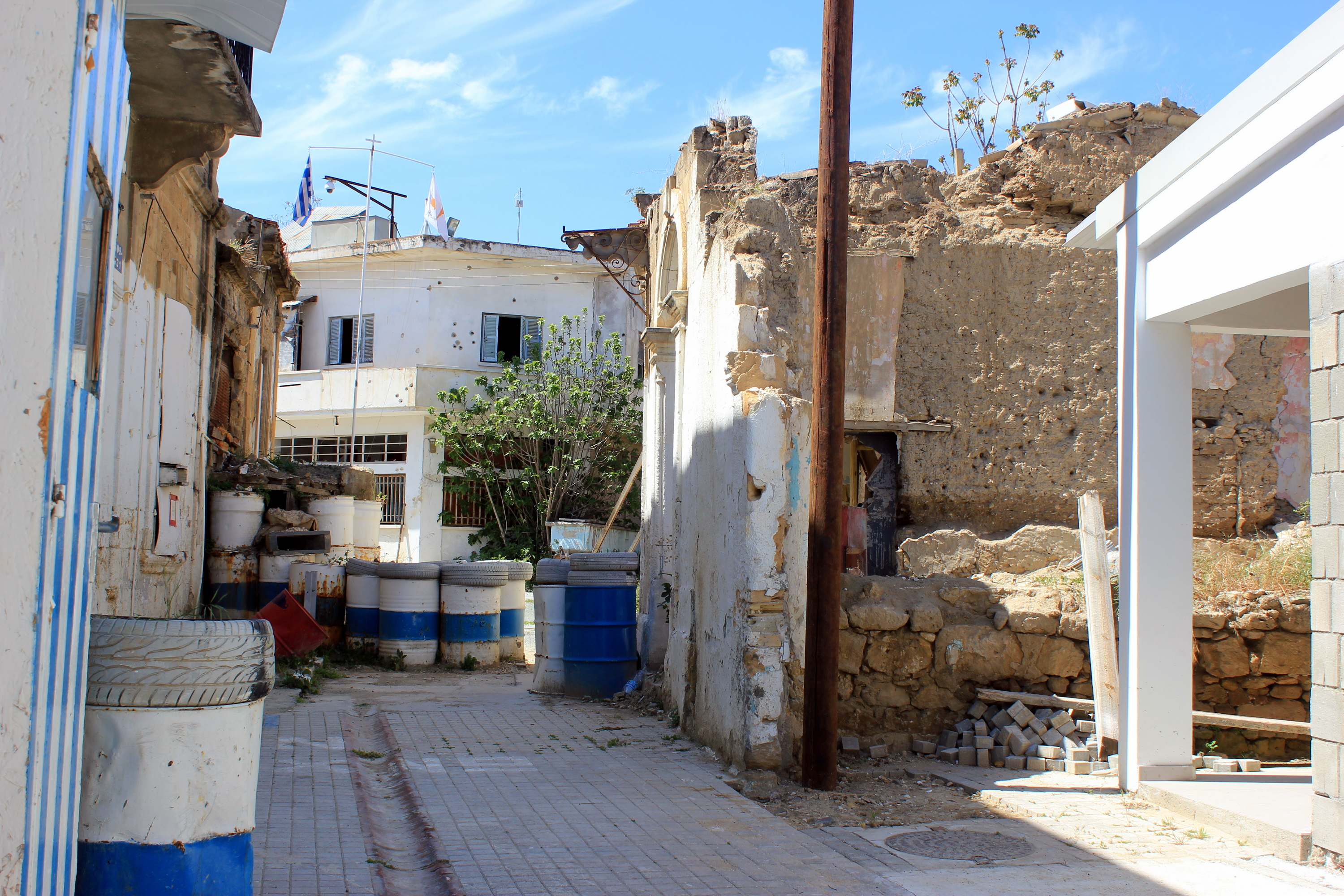 At the "Green Line" in Nicosia, Cyprus.